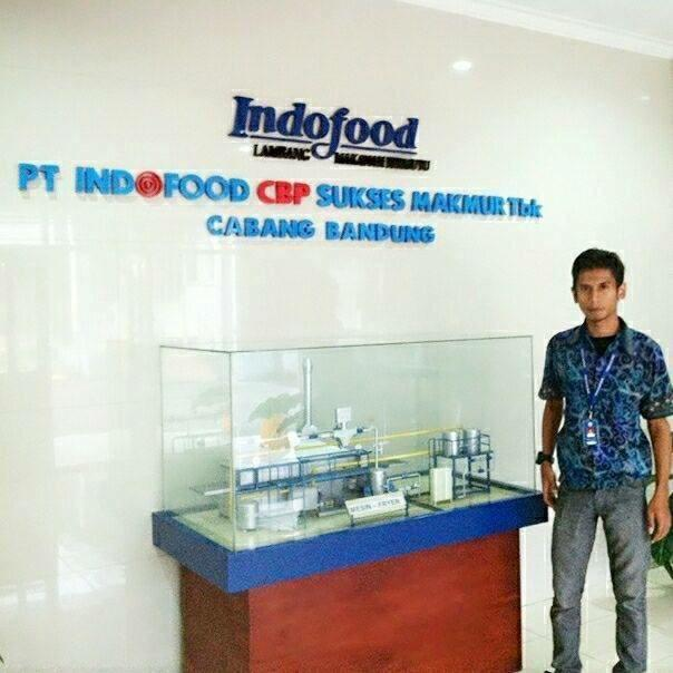 prasetya at Indofood Office